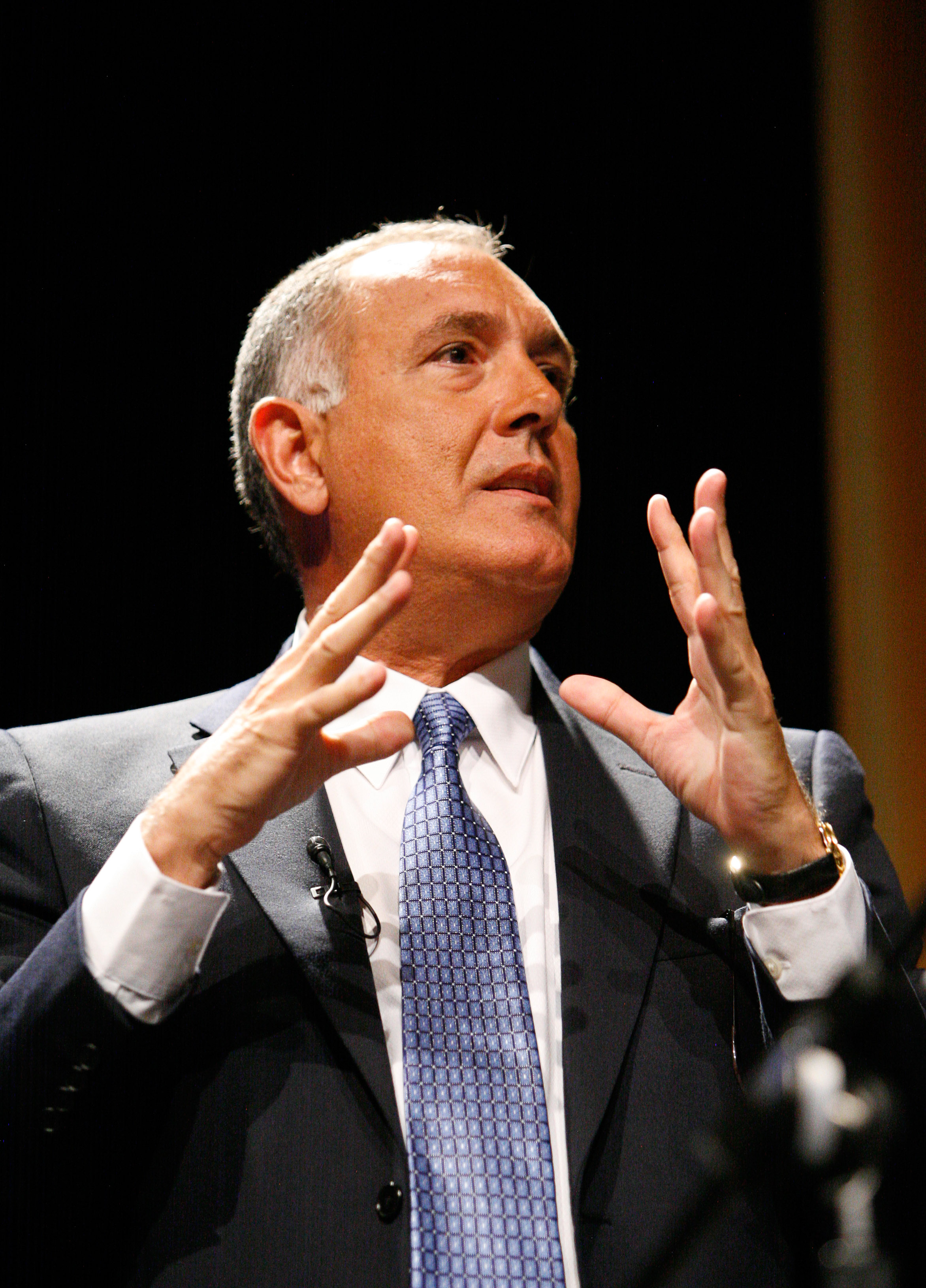 Joe Navarro Speaking at PopTech! Conference